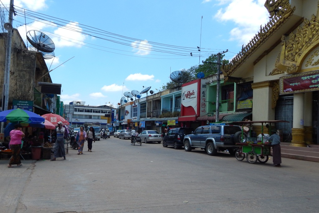 Downtown area, Pathein